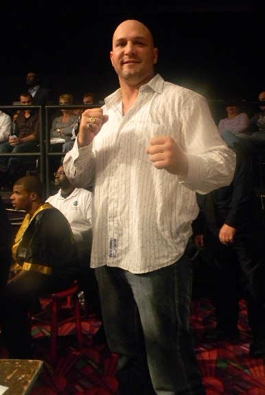 Sports writer and photographer Robert Brizel captured heavyweight boxing contender Tony Grano ringside at a boxing card at Foxwoods Casino, October 3, 2010.